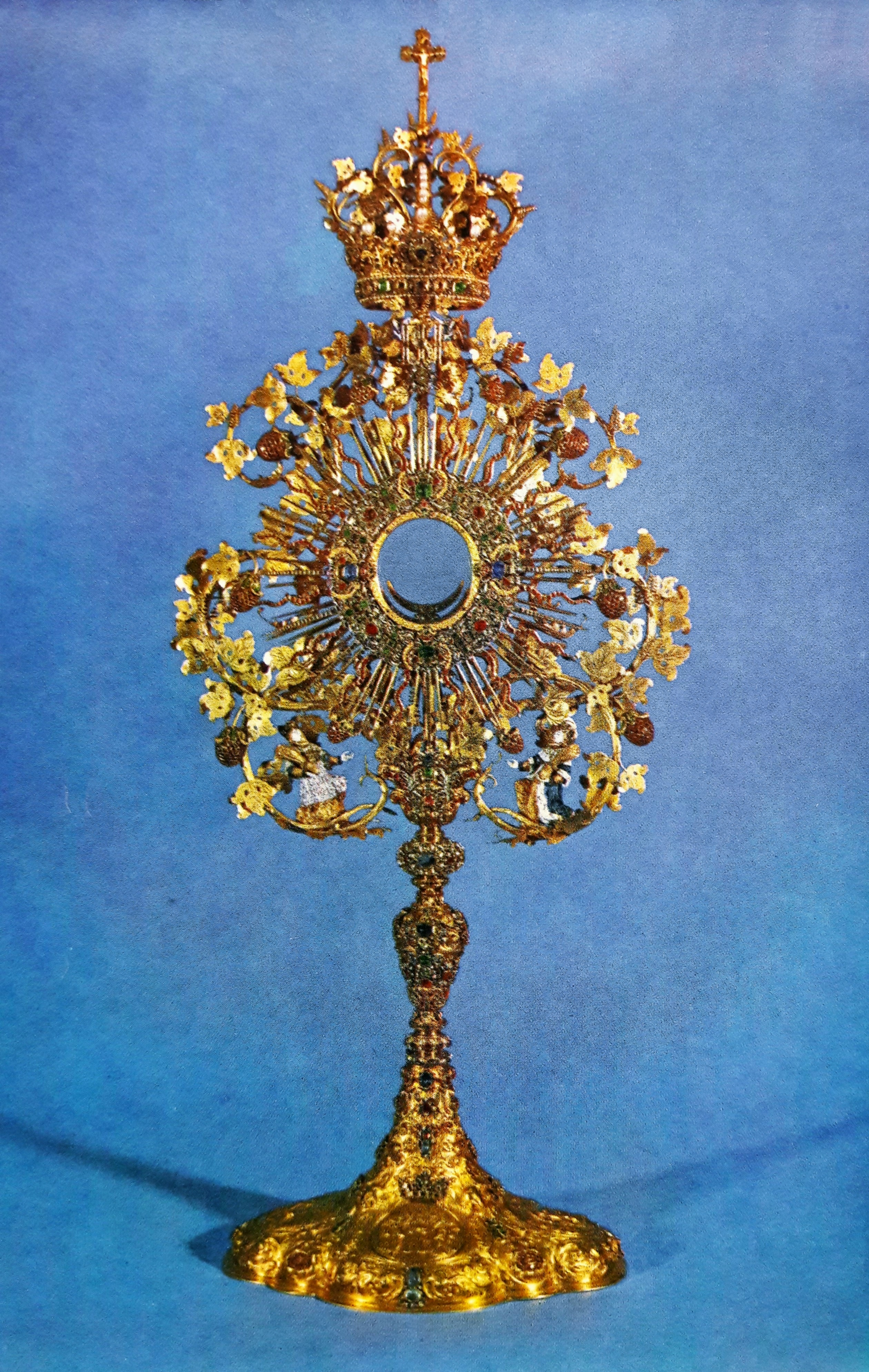 Photograph